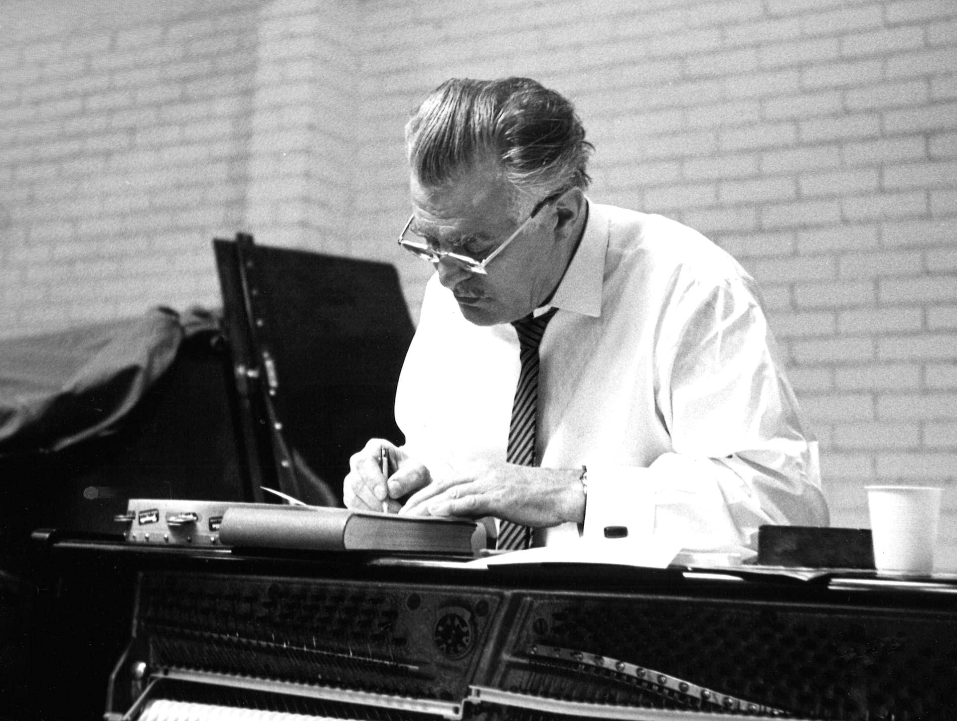 Photograph of the Finnish actor Tauno Palo.